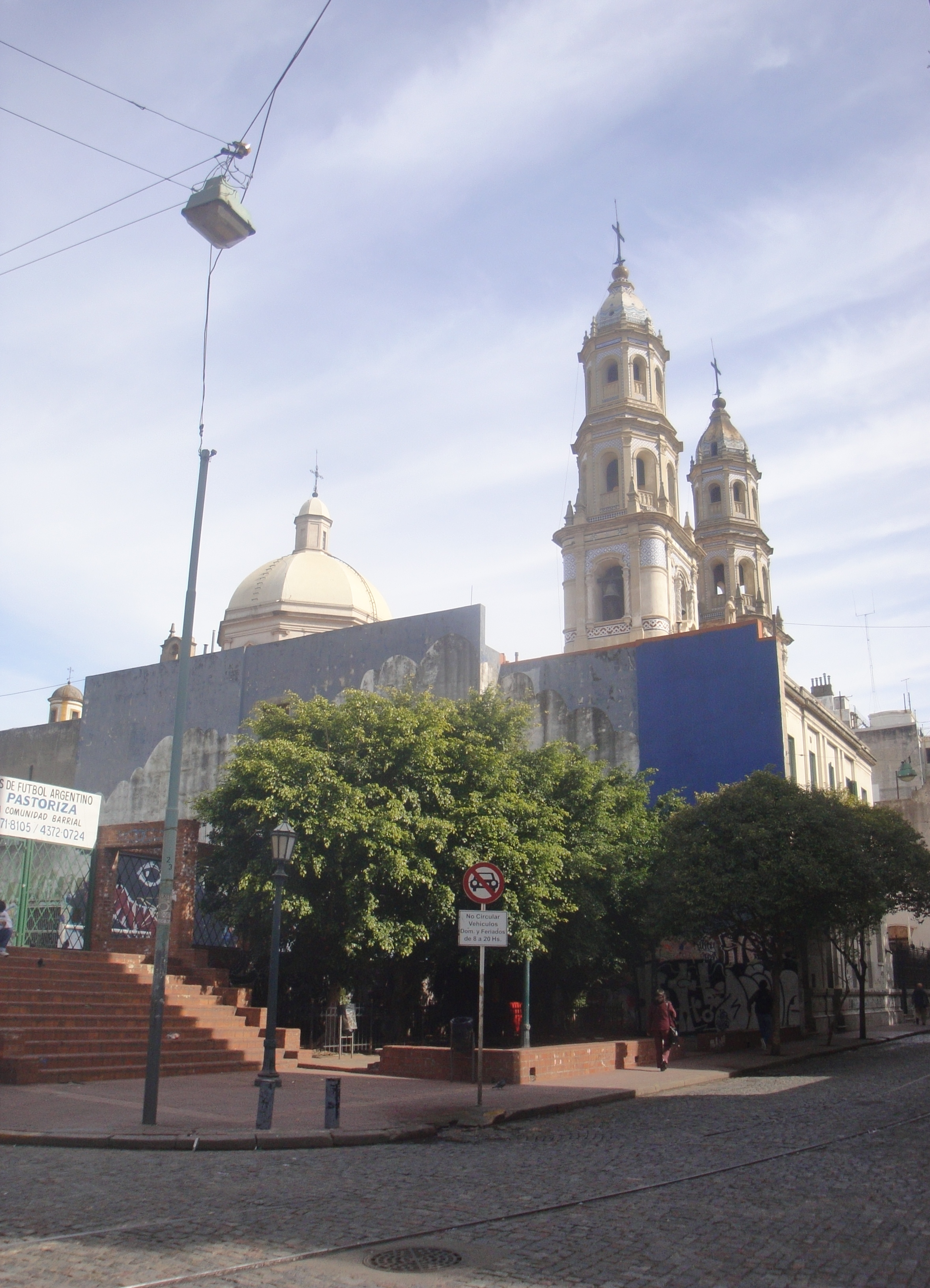 Intersection of Humberto Primo and Balcarce, in San Telmo Barrio, Buenos Aires. At bottom appears the Parish of San Pedro Gonzalez Telmo.